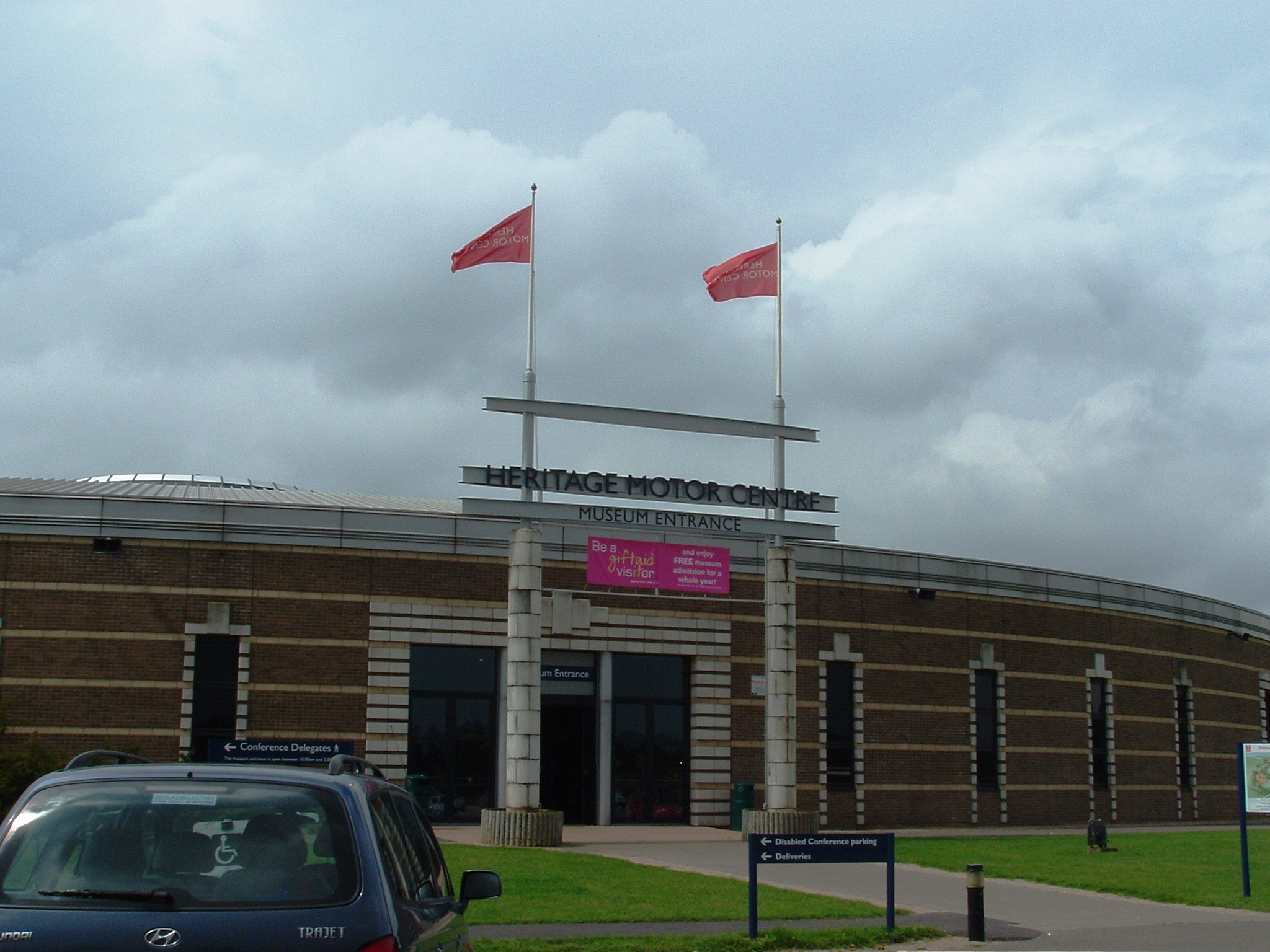 Photographer: Andy Connolly Subject: Gaydon Motor Heritage Centre